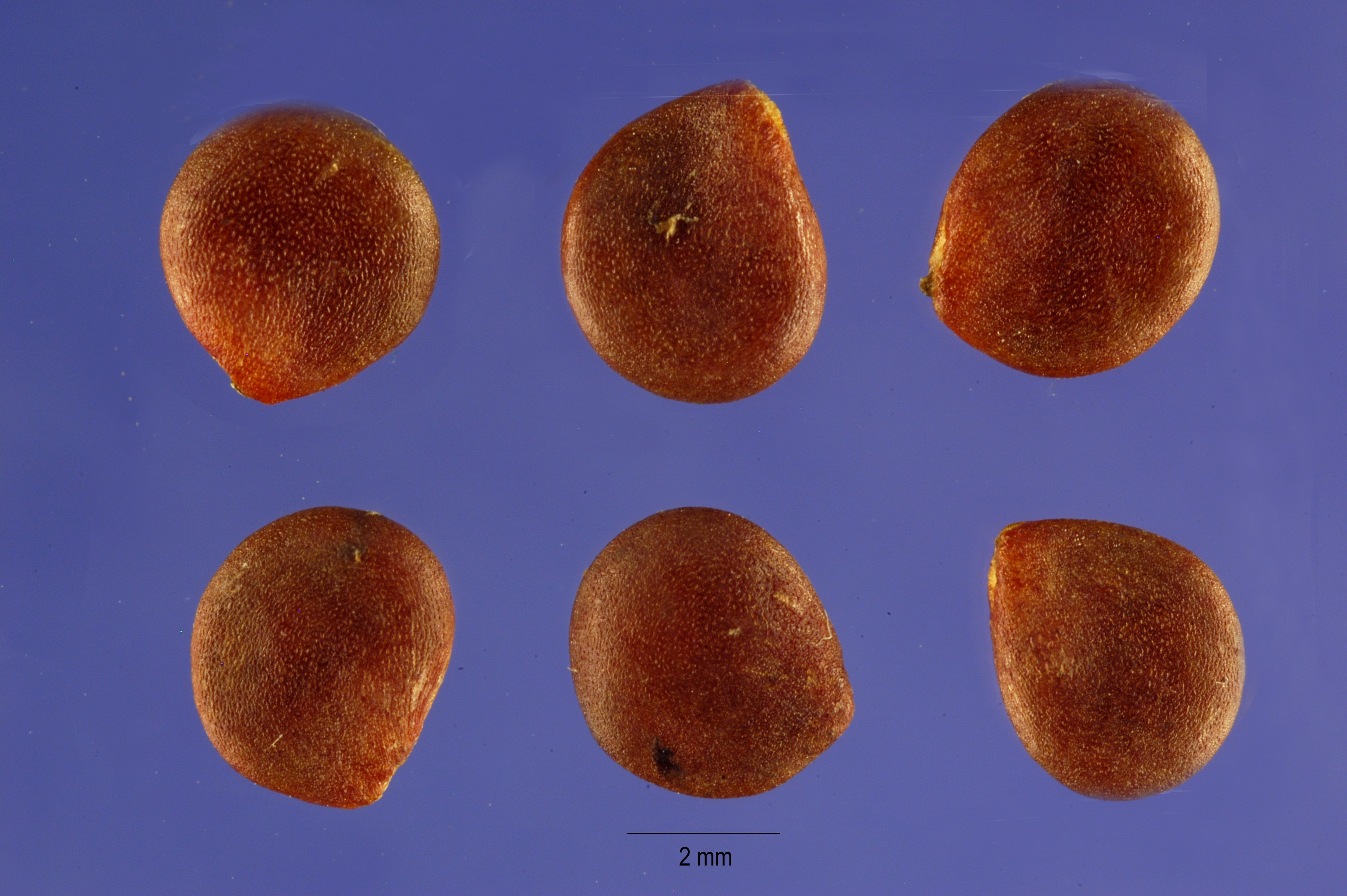 Seeds of Solanum mammosum